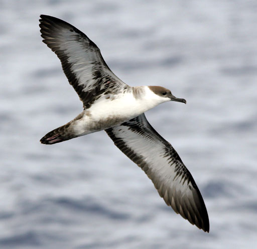 Greater Shearwater, Puffinus gravis, Location: Gulf Stream off of Hatteras, North Carolina, United States